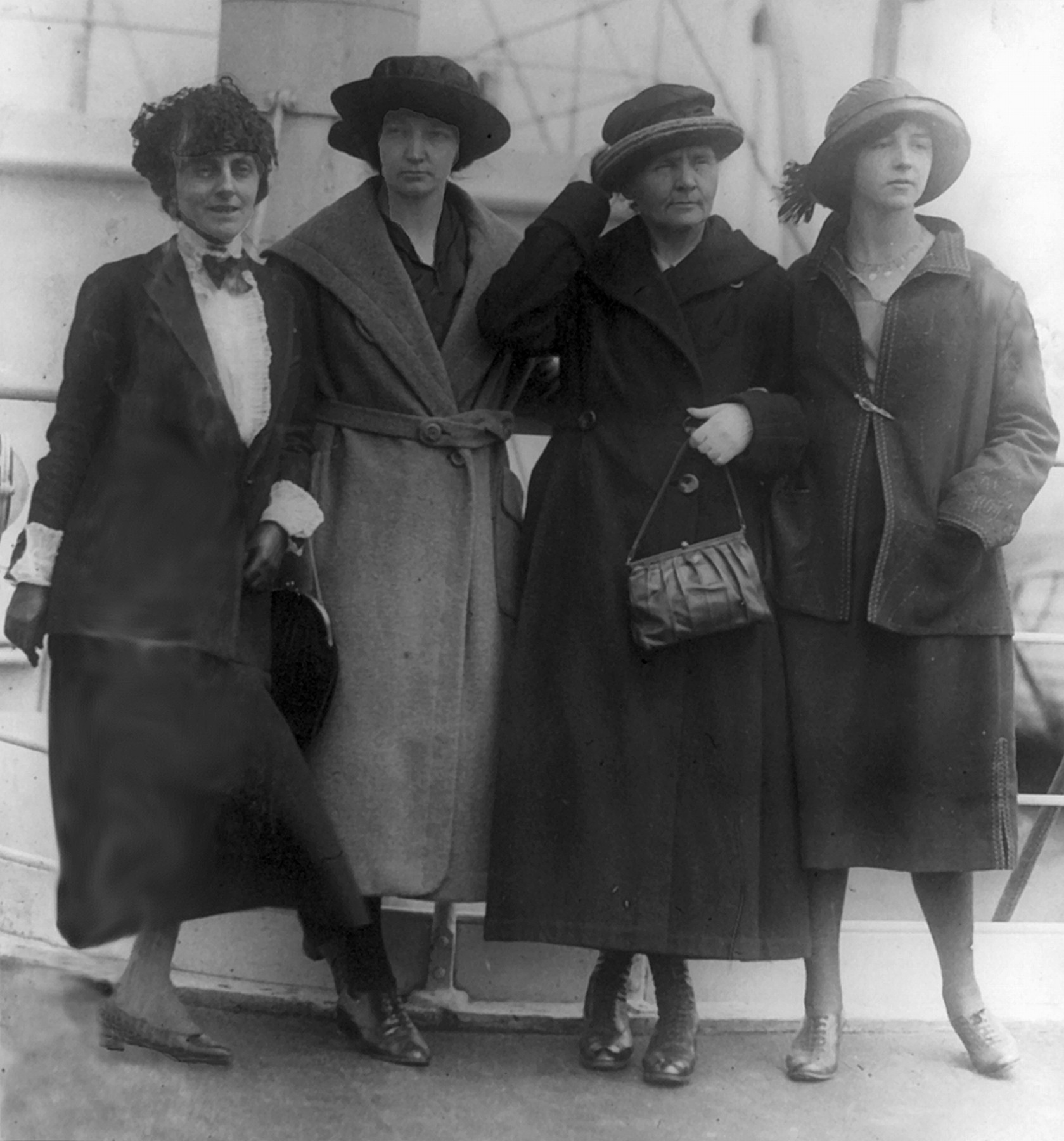 Photographer unknown. Very low resolution. Marie Mattingly Meloney at left, with Irene, Marie and Eve Curie, during the Curies' 1921 visit to the United States.